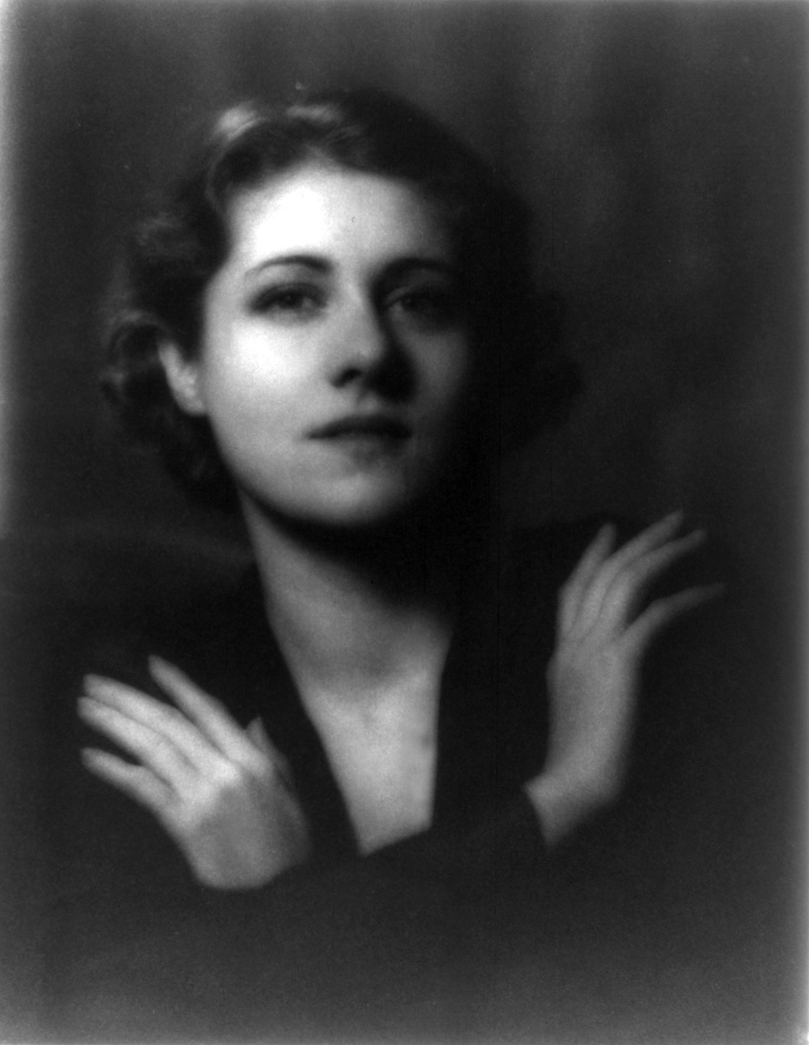 Clare Boothe Luce, American playwright and diplomat